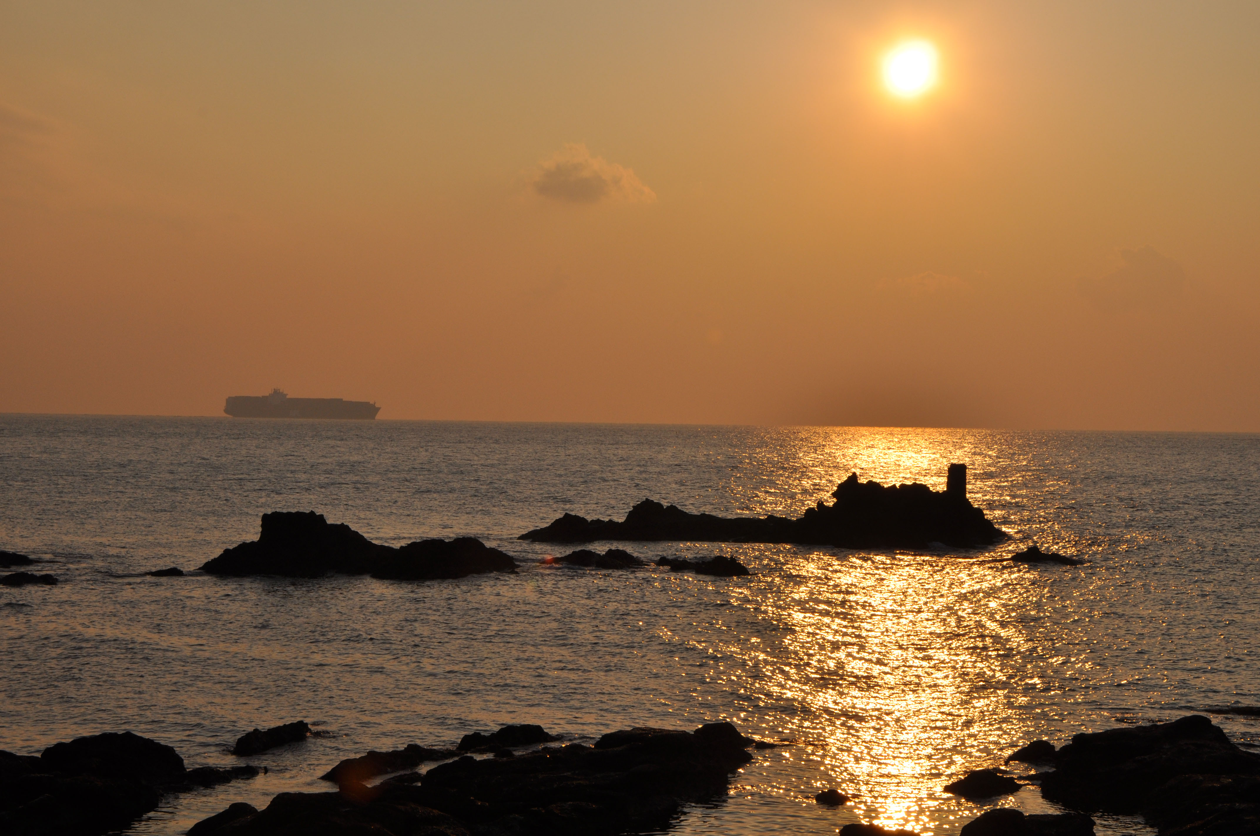 Cape Myogane, Chiba Prefecture, Japan